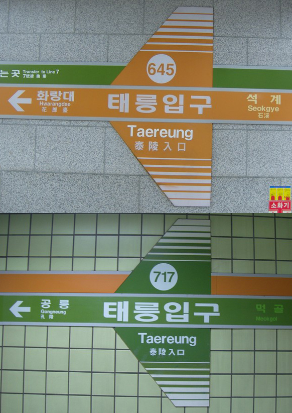 Taereung Station